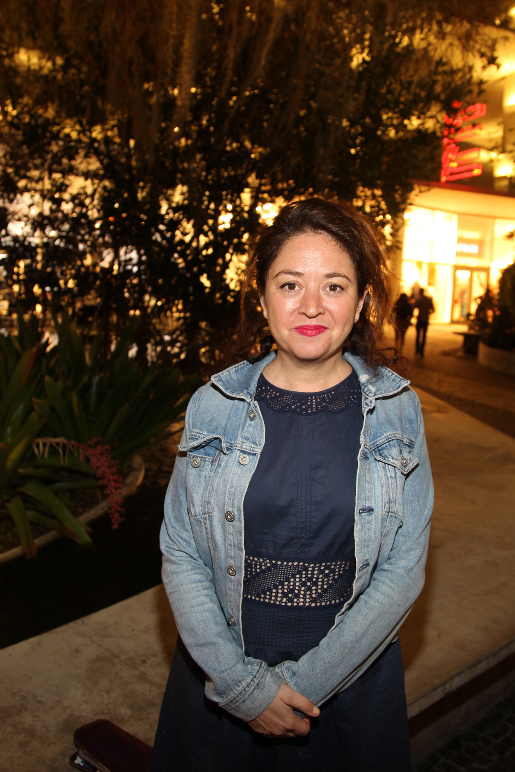 Liz Garbus at the Miami Film Festival presentation of "Nothing Left Unsaid" Photo: David Heischrek